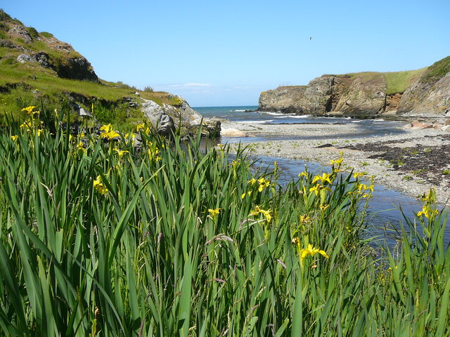 Aber Geirch on the Lleyn Coastal Path